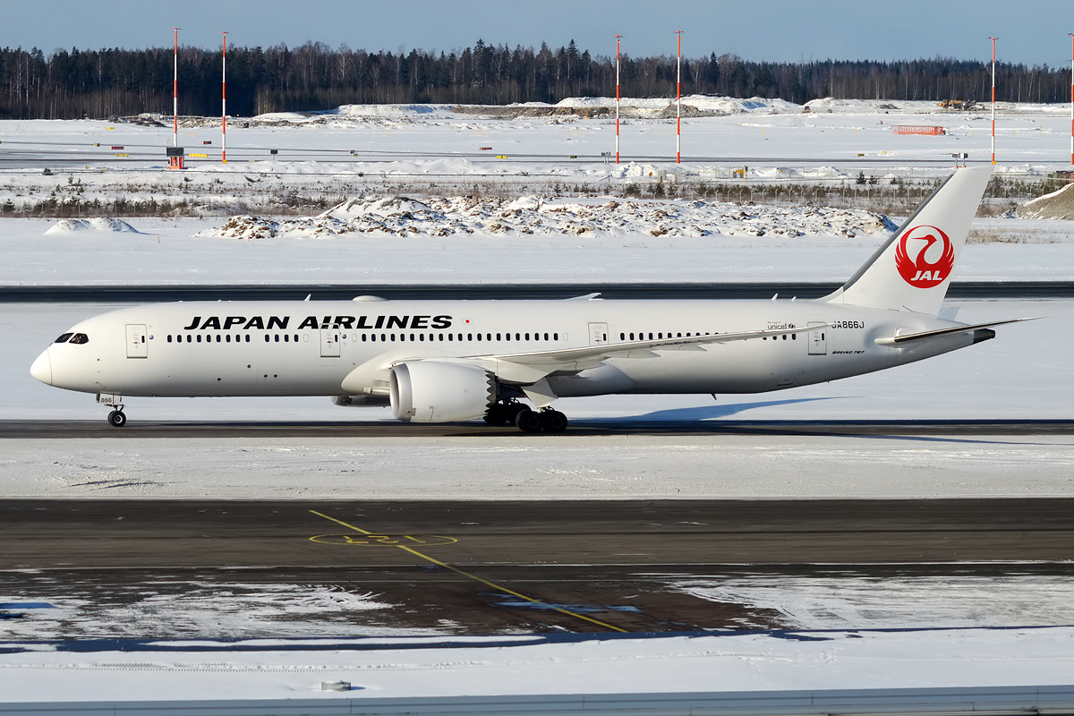 Japan Airlines, JA866J, Boeing 787-9 Dreamliner